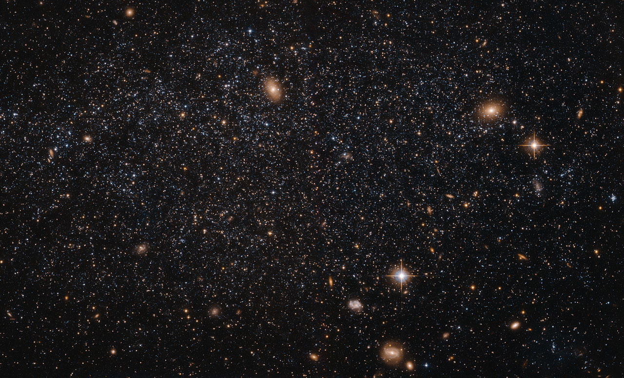 At first glance this NASA/ESA Hubble Space Telescope image seems to show an array of different cosmic objects, but the speckling of stars shown here actually forms a single body — a nearby dwarf galaxy known as Leo A. Its few million stars are so sparsely distributed that some distant background galaxies are visible through it. Leo A itself is at a distance of about 2.5 million light-years from Earth and a member of the Local Group of galaxies; a group that includes the Milky Way and the well-known Andromeda galaxy. Astronomers study dwarf galaxies because they are very numerous and are simpler in structure than their giant cousins. However, their small size makes them difficult to study at great distances. As a result, the dwarf galaxies of the Local Group are of particular interest, as they are close enough to study in detail. As it turns out, Leo A is a rather unusual galaxy. It is one of the most isolated galaxies in the Local Group, has no obvious structural features beyond being a roughly spherical mass of stars, and shows no evidence for recent interactions with any of its few neighbours. However, the galaxy’s contents are overwhelmingly dominated by relatively young stars, something that would normally be the result of a recent interaction with another galaxy. Around 90% of the stars in Leo A are less than eight billion years old — young in cosmic terms! This raises a number of intriguing questions about why star formation in Leo A did not take place on the “usual” timescale, but instead waited until it was good and ready.